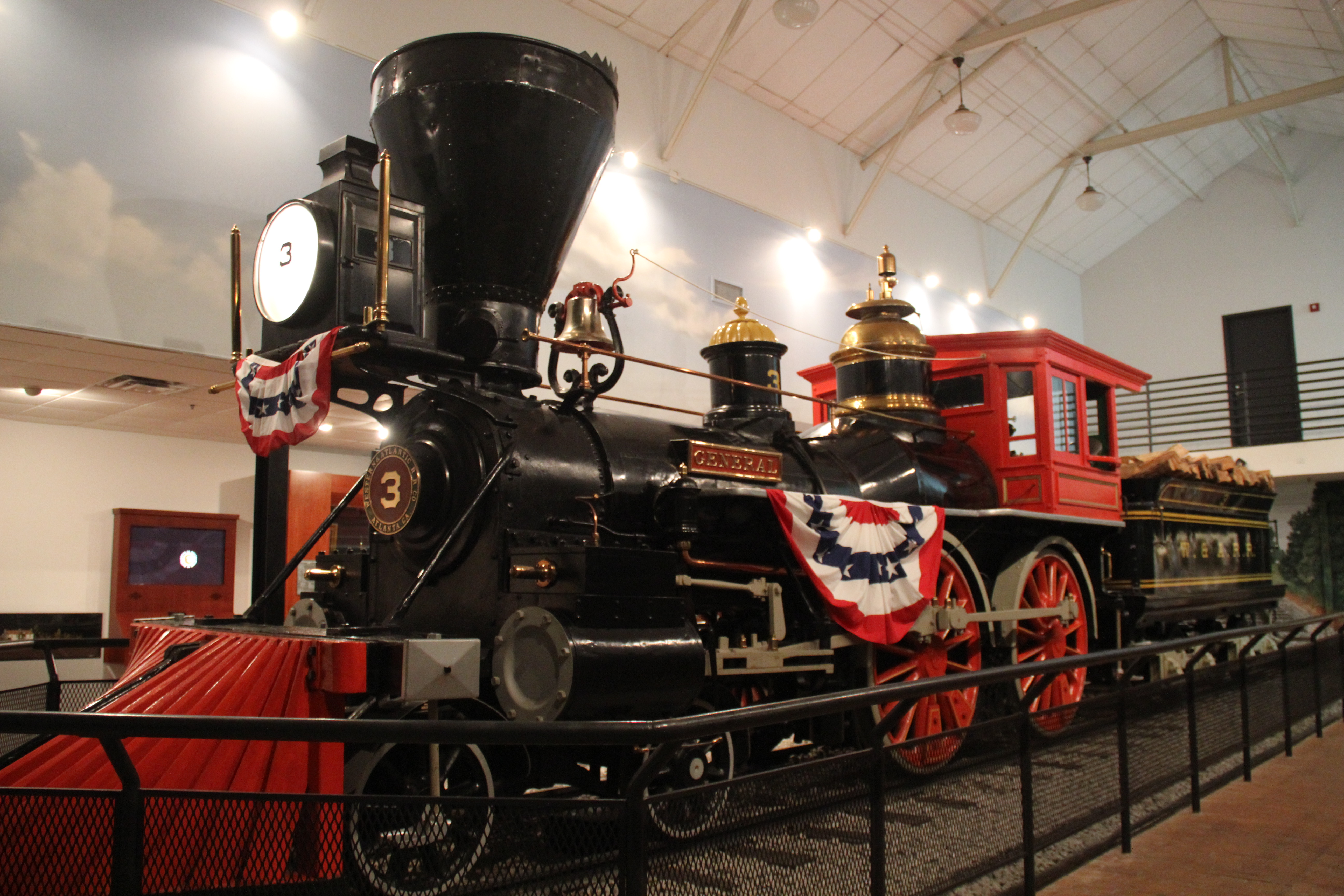 Southern Museum, Kennesaw, Georgia. Complete indexed photo collection at .